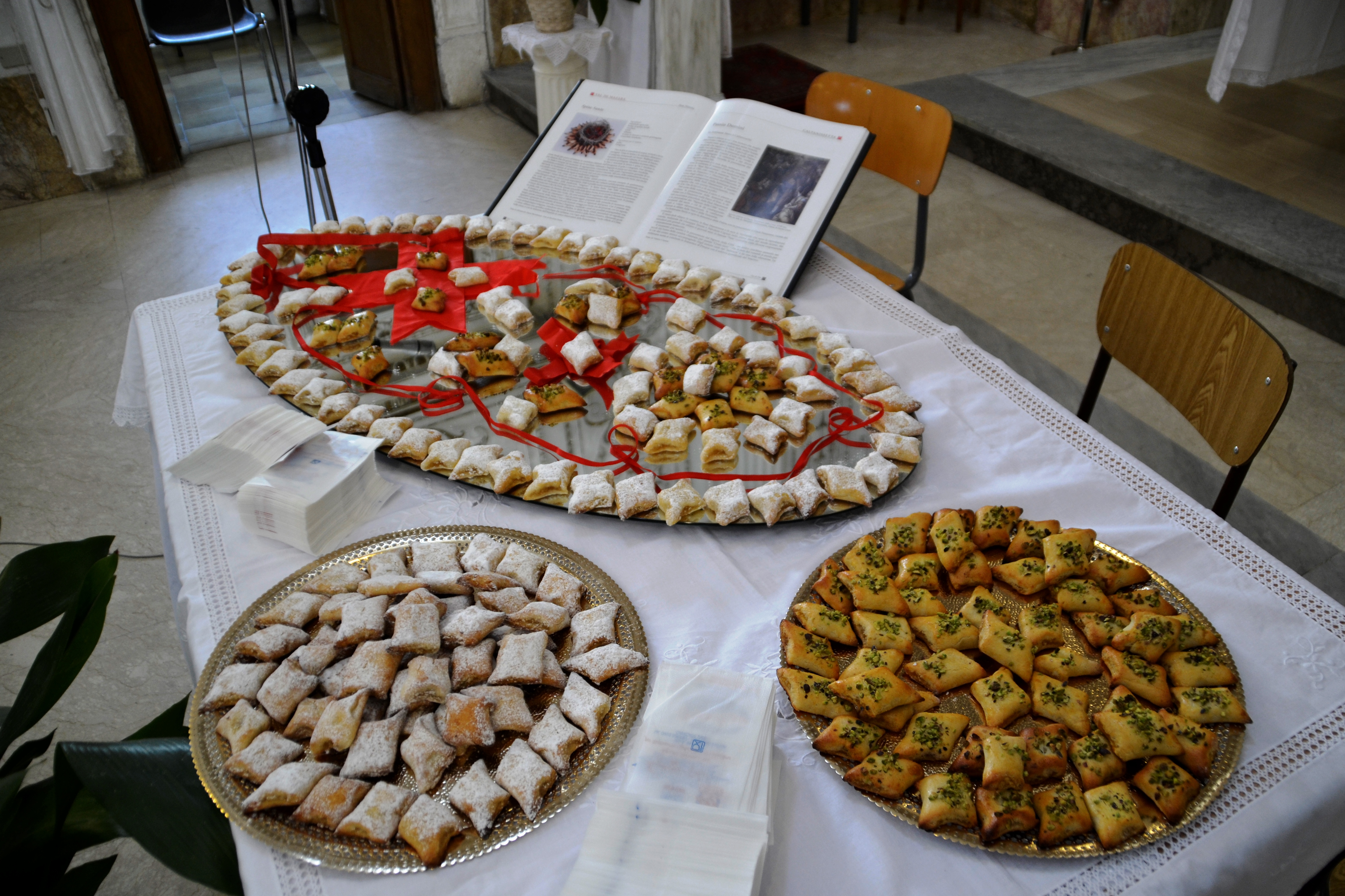 Crocetta of Caltanissetta, sweet used to be prepared for the Holy Crucifix festivity by the Sisters of the Benedectine Monastery of Caltanissetta